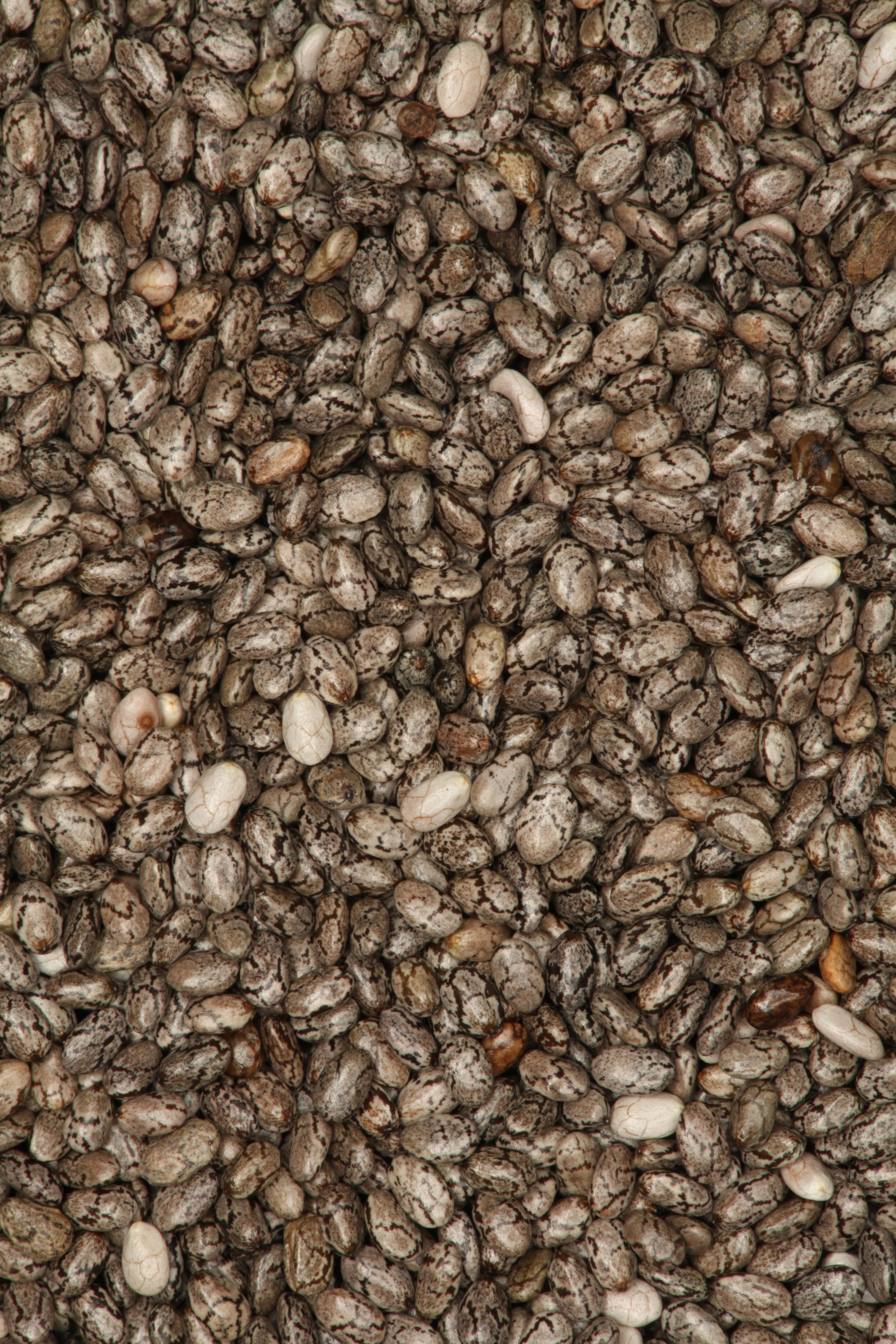 Macro photo of Chia seeds (Salvia hispanica). Length of each seed is about 2mm.